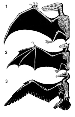 Diagram of homologous bones and analogous flying adaptions in the forelimbs of three groups of flying vertebrates both recent and fossilized. 1 pterosaur (Pterosauria), 2 bat (Chiroptera), 3 bird (Aves).